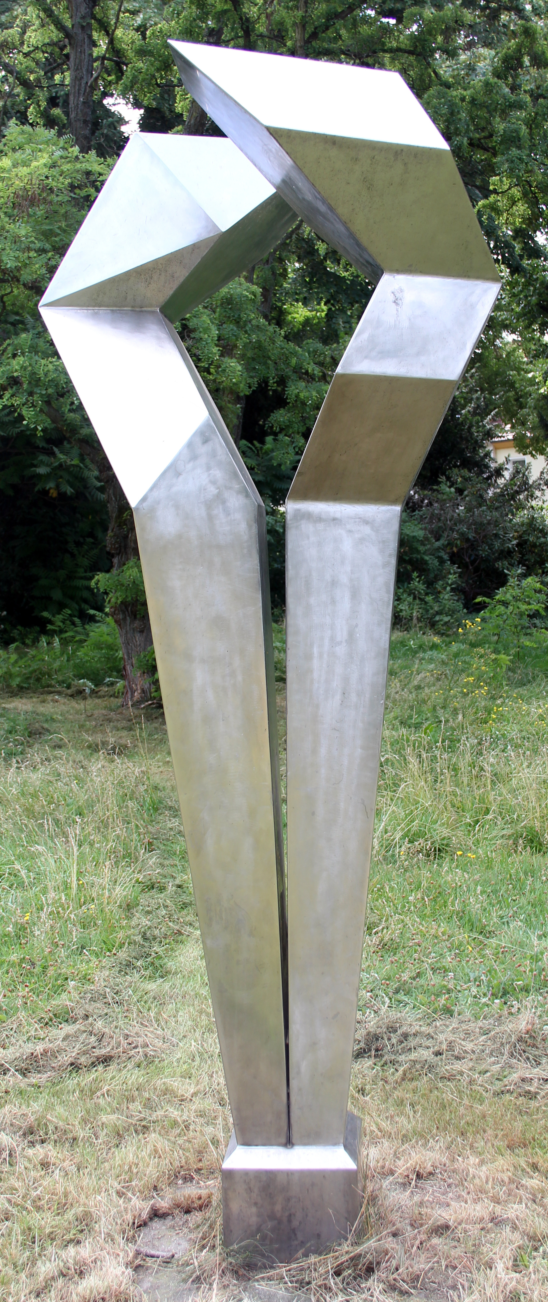 Sculpture, "Doppelherme" by Karl Menzen, 1988,, Manfred-von-Richthofen-Straße, Berlin-Tempelhof, Germany